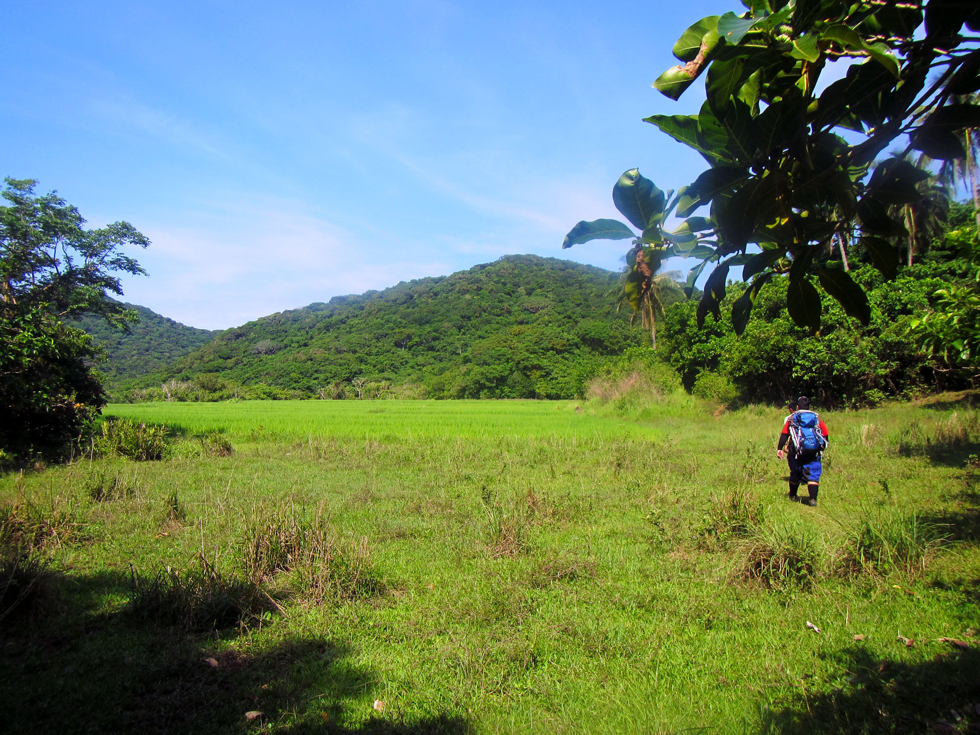 Grassland and mountain trekking at Cagayan Valley's Palaui Island to reach the famous Cape Engano, Luzon's northeastern tip frontier. Shot by Schadow1 Expeditions during its mapping expedition of the island last 2013.